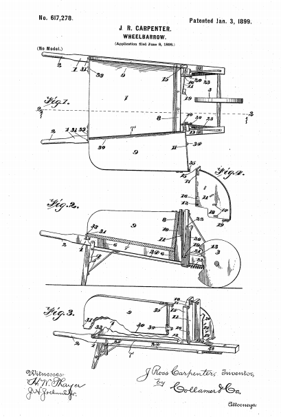 Patent application by James R. Carpenter for his wheelbarrow design